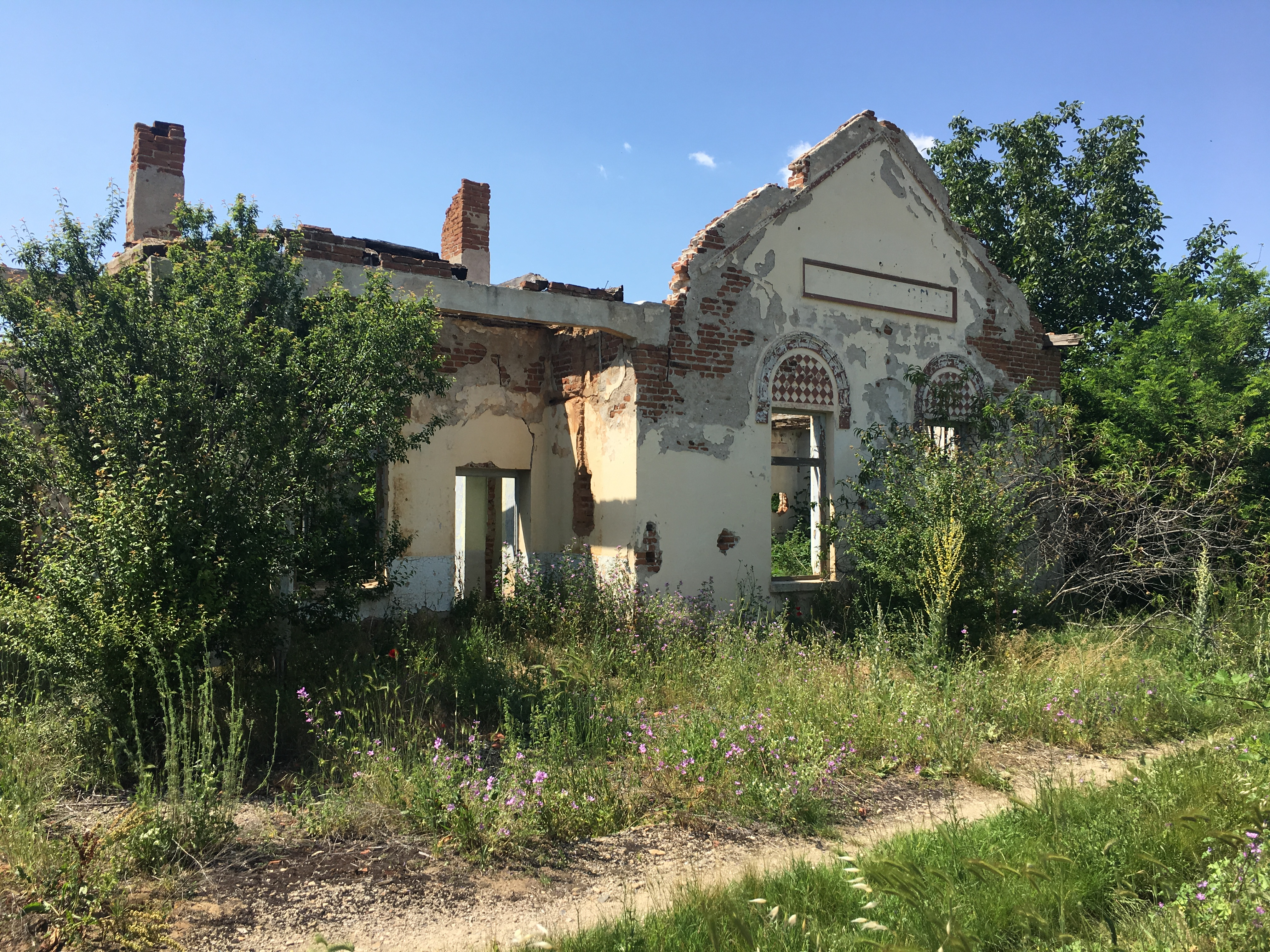 Dame Gruev train station near the village of Vašarejca